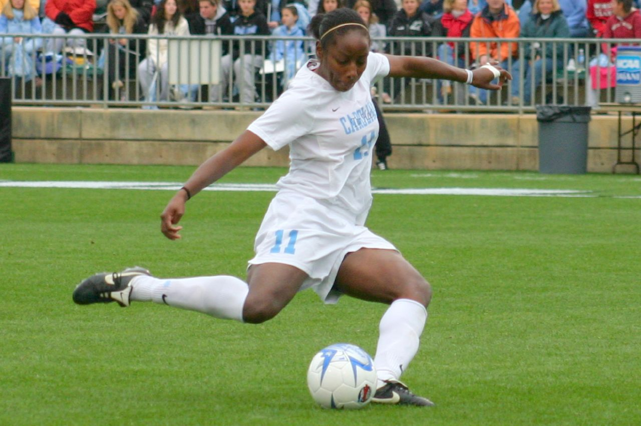 North Carolina Tar Heels #11 Robyn Gayle during the National Championship game at SAS Soccer Park in Cary, NC on Sunday, December 3, 2006.